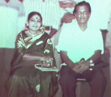 Indian singers